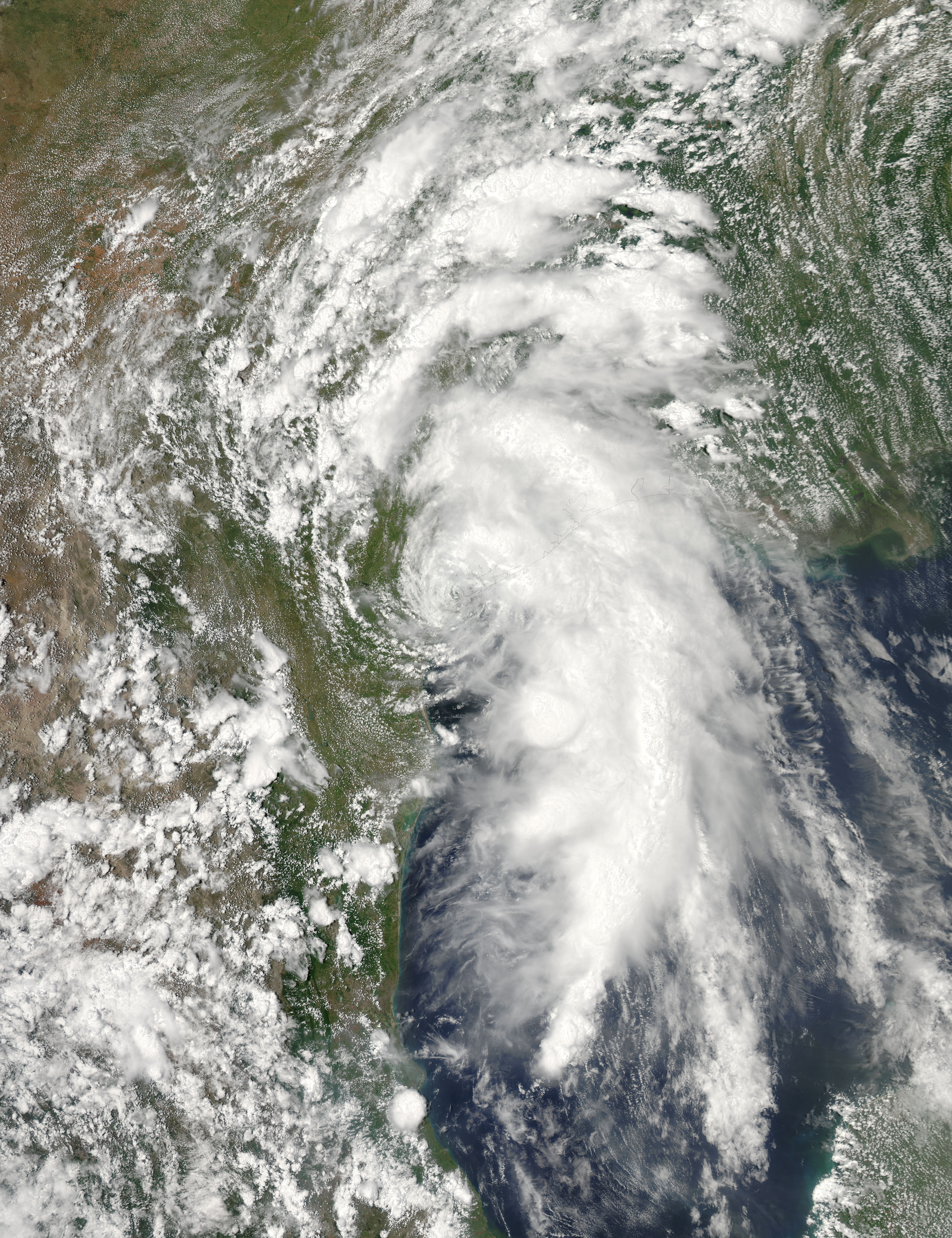 Tropical Storm Bill, the second named tropical cyclone of the 2015 Atlantic hurricane season, making landfall on the Central Texas Gulf Coast on June 16, 2015.